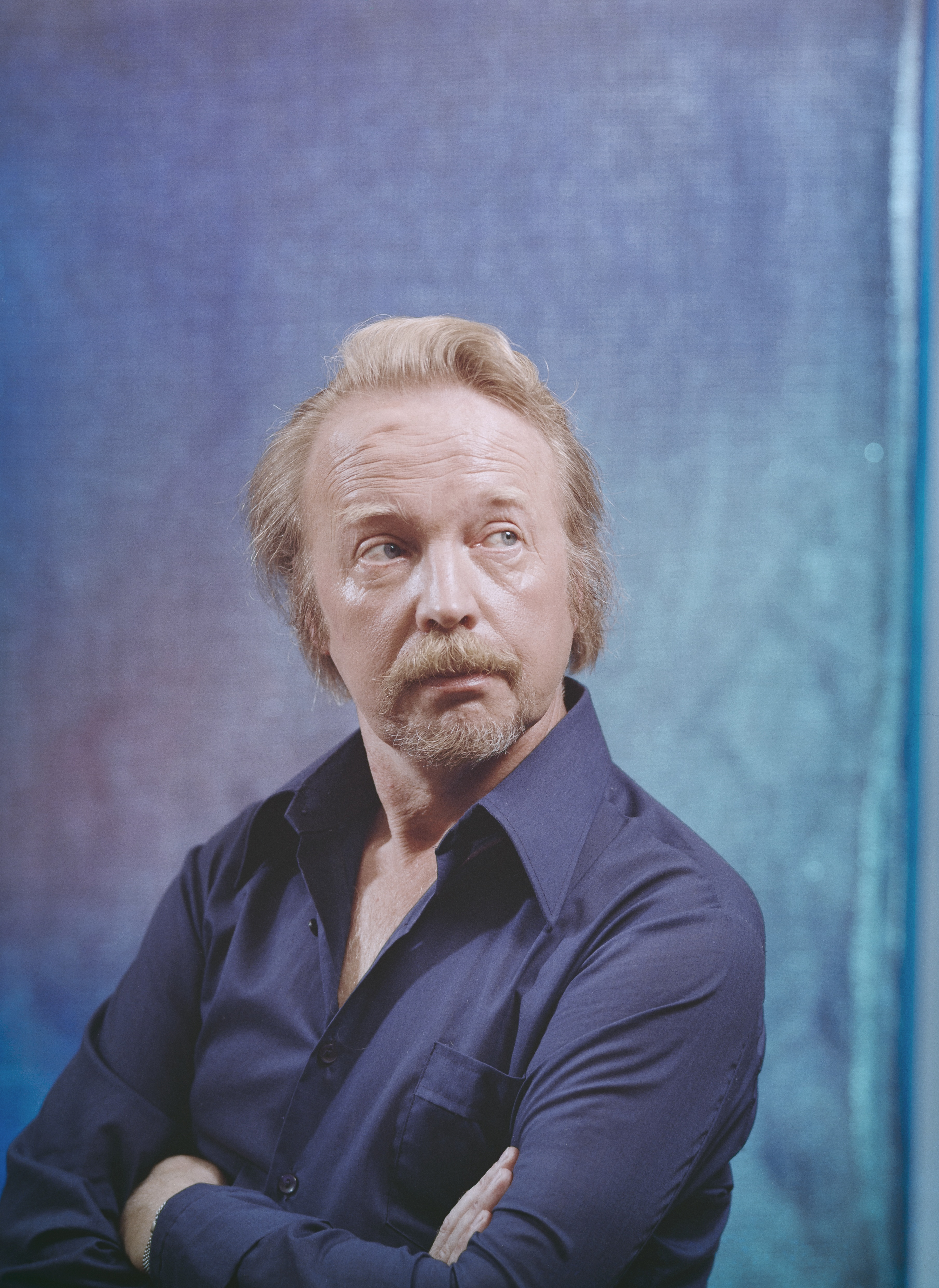 Photograph of the Finnish writer Pauli Murtomäki (1926–2016).